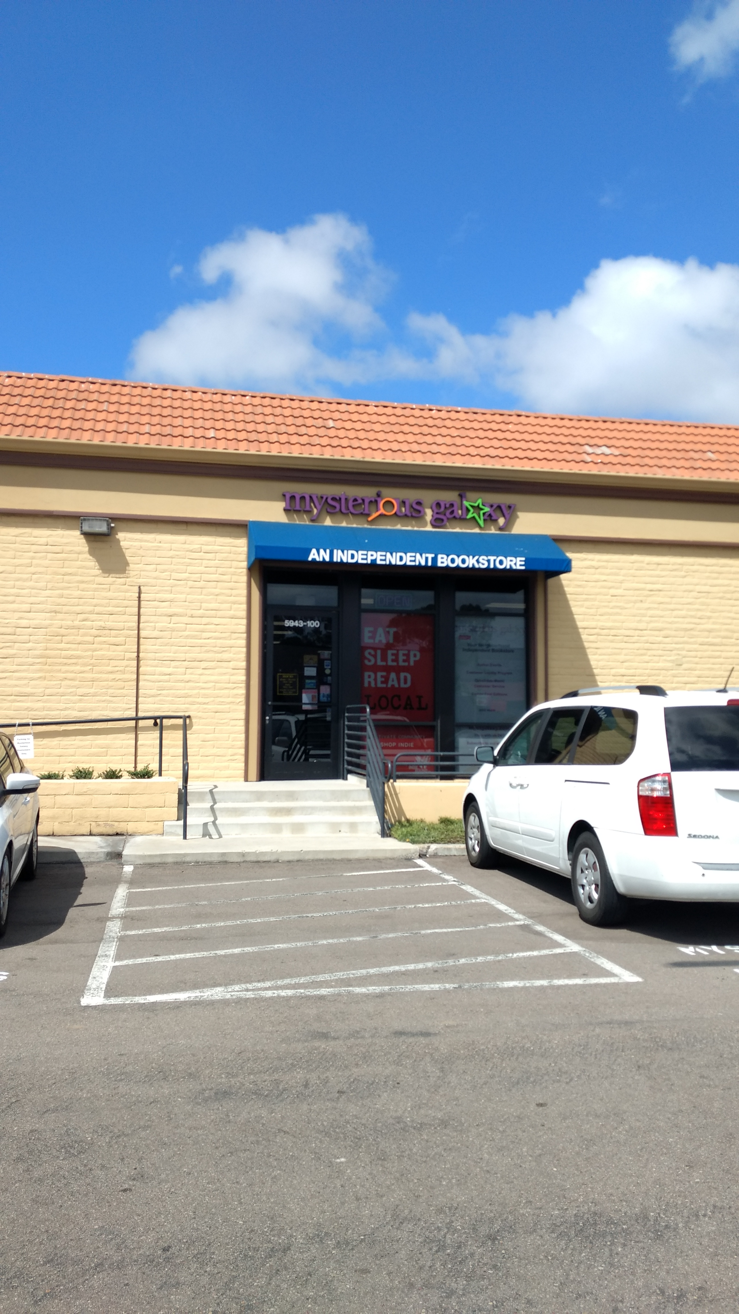 Mysterious Galaxy Books, an independent bookstore in Clairemont Mesa East, San Diego